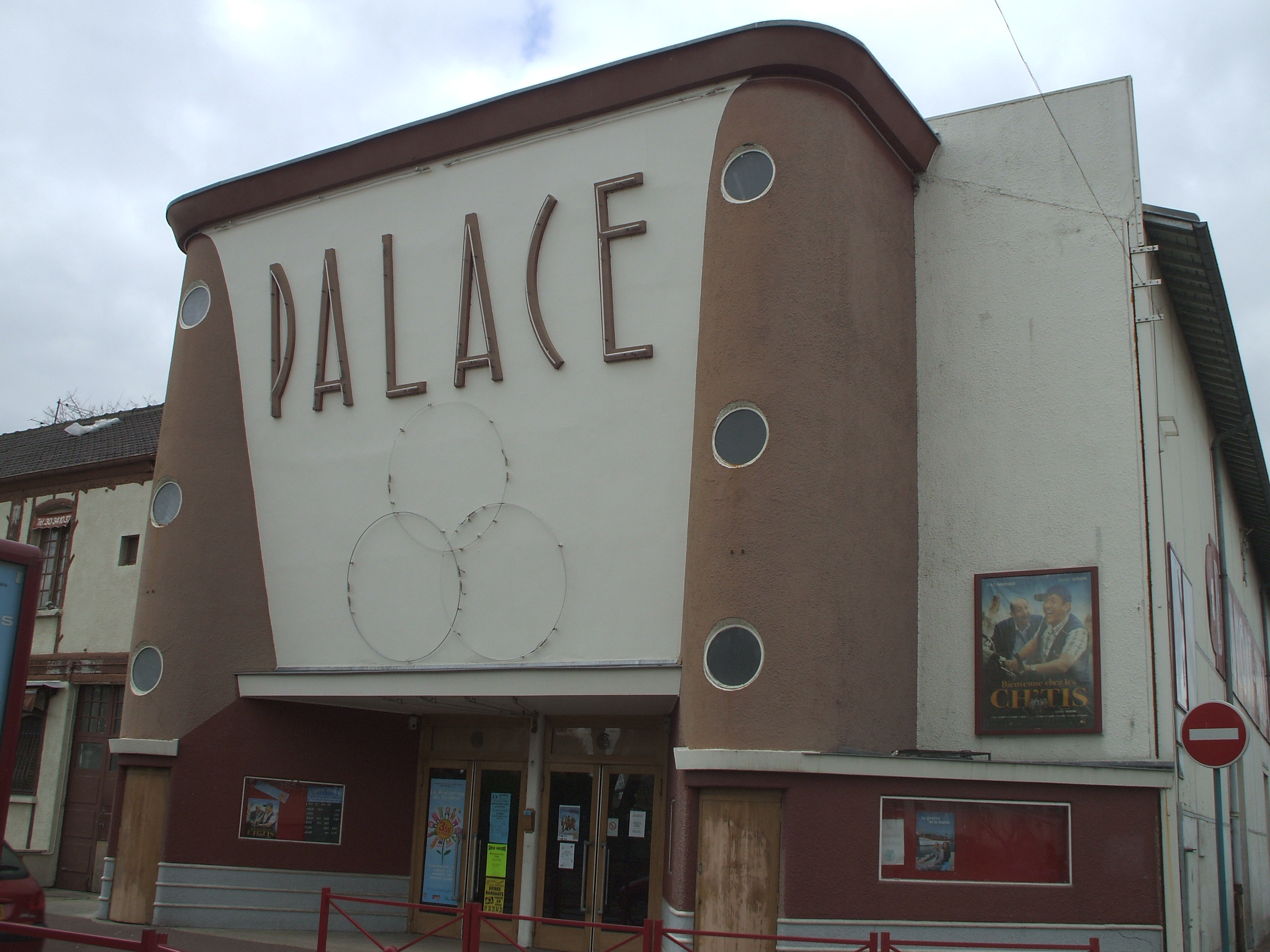 Movie theater of beaumont sur oise